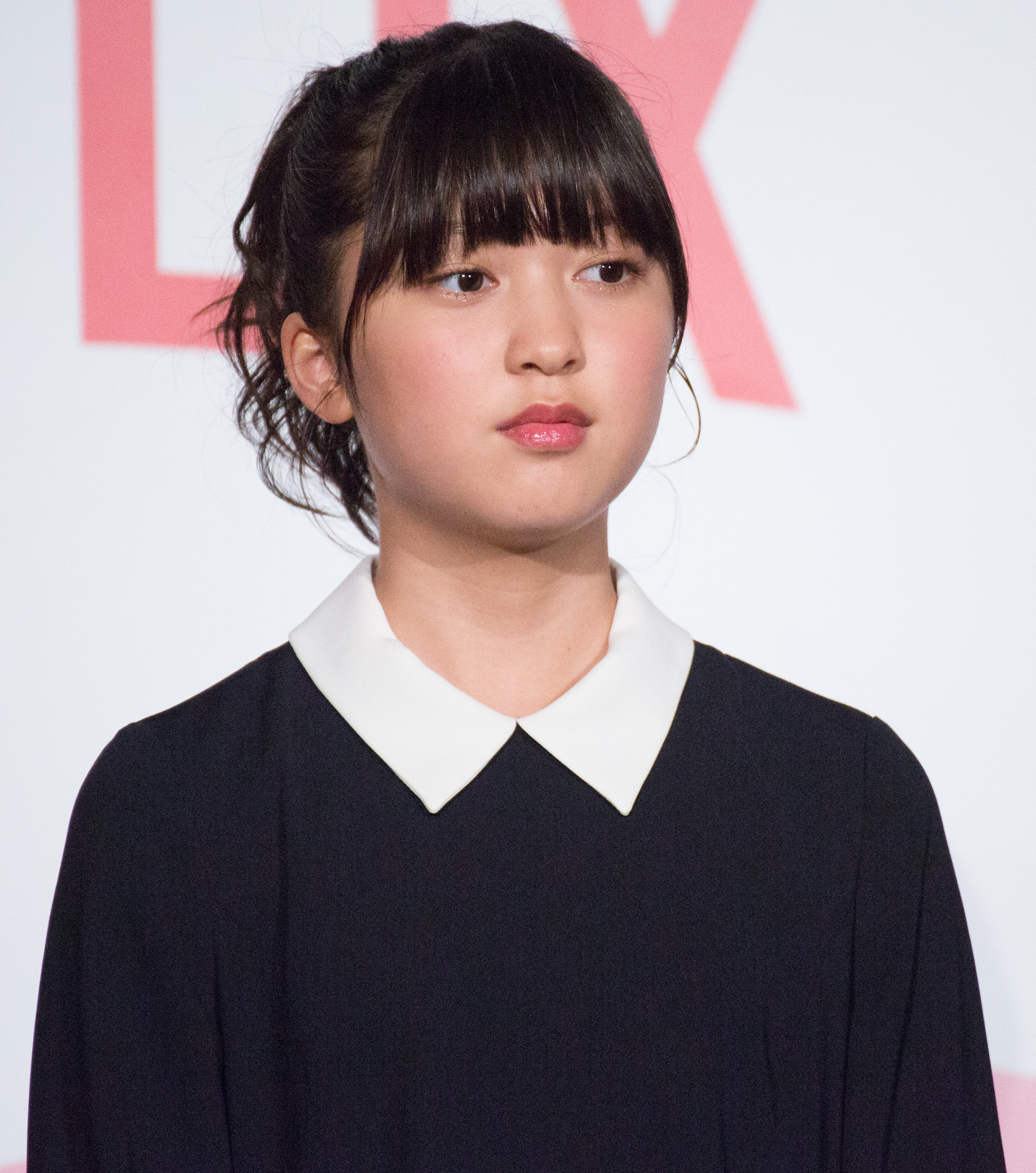 Okja Japan Premier - Ahn Soe-hyun